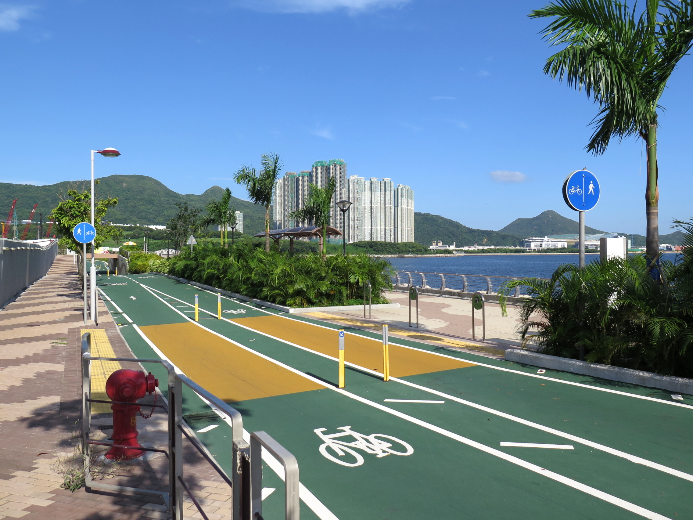 Tseung Kwan O Waterfront Promenade Cycling Path